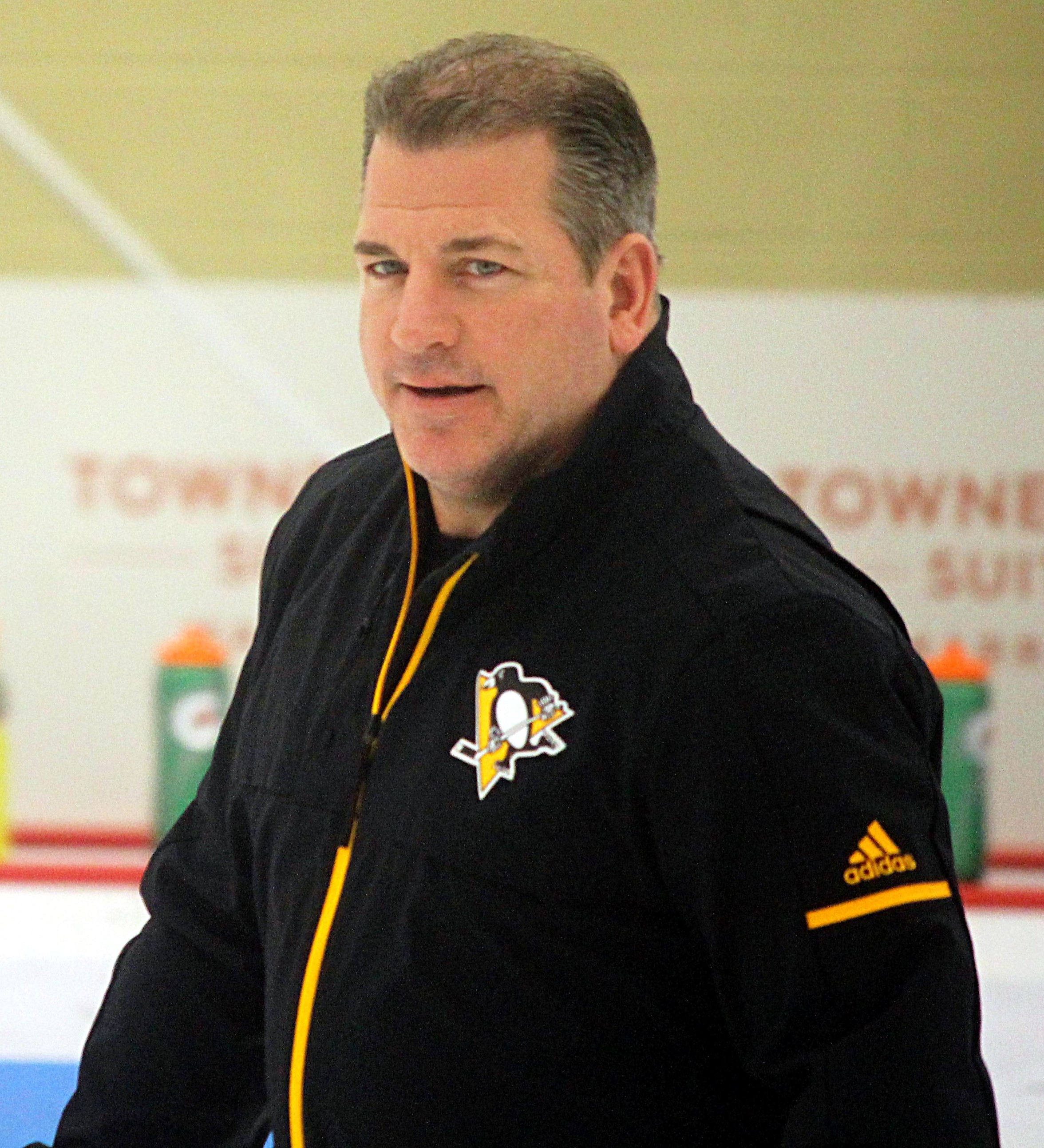 Pittsburgh Penguins assistant coach Mark Recchi during practice at UPMC Lemieux Sports Complex in Cranberry Twnshp, PA. Friday, March 2, 2018.